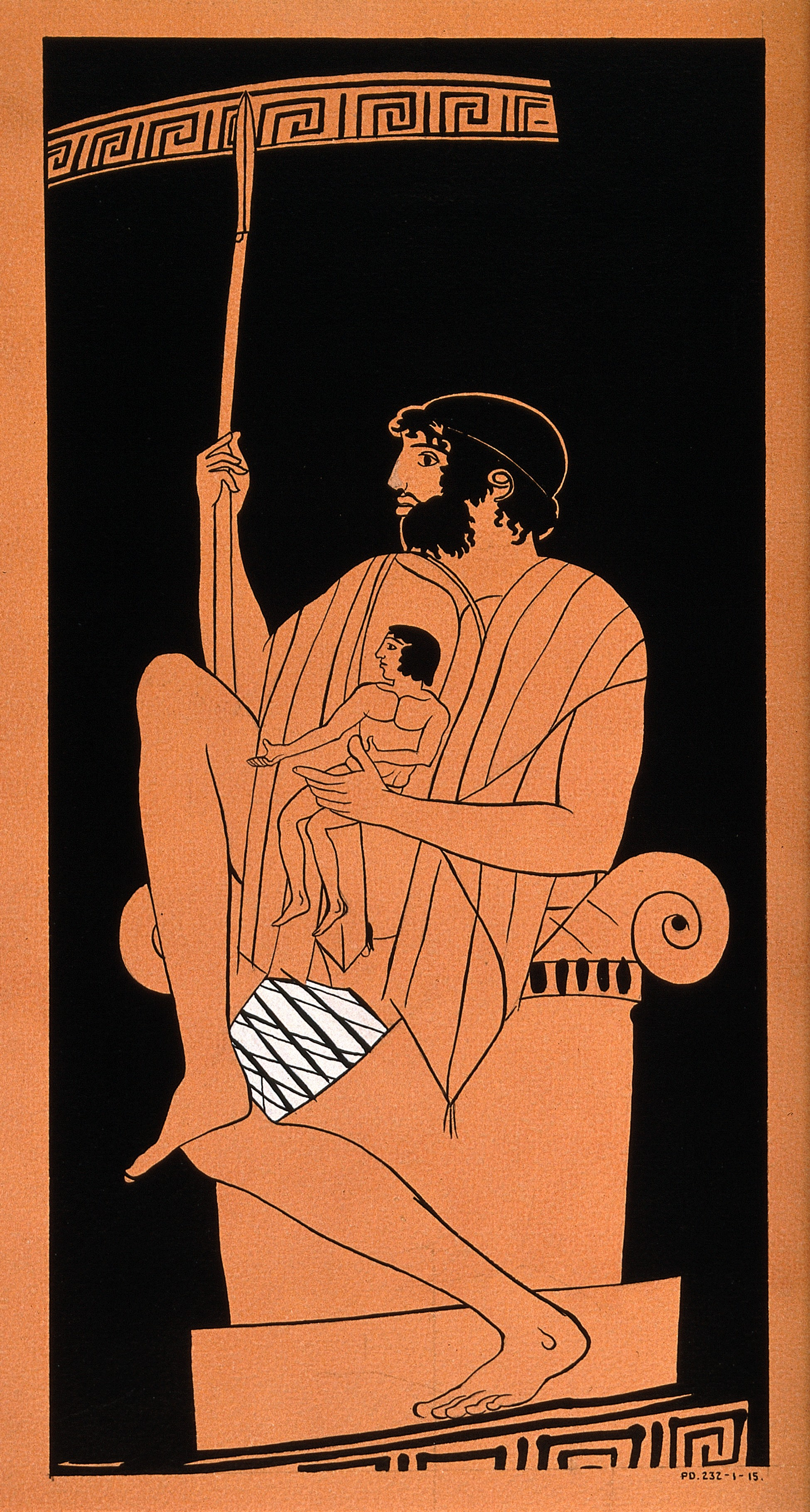 Telephus with bandaged thigh and holding a spear and child (probably Orestes). Coloured ink drawing after an attic cup, ca. 450 b.C. Iconographic Collections Keywords: Orestes; Telephus